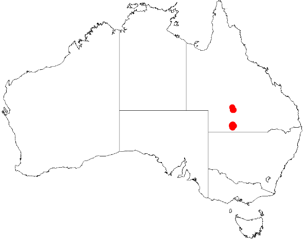 Acacia ammophila Occurrence data from Australasia Virtual Herbarium downloaded from on 8 December 2018